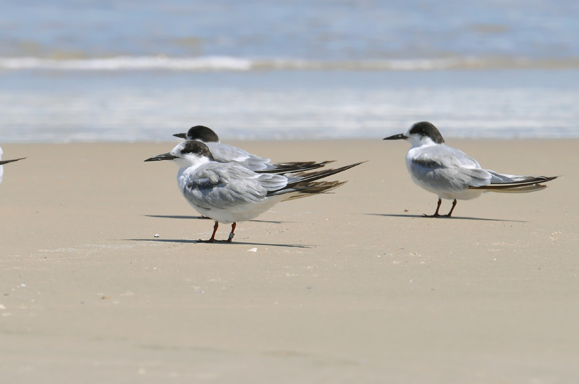 Common Terns in Bojuru, Rio Grande do Sul, Brazil. Birds in non-breeding plumage seen on the Atlantic coast in December 2010.